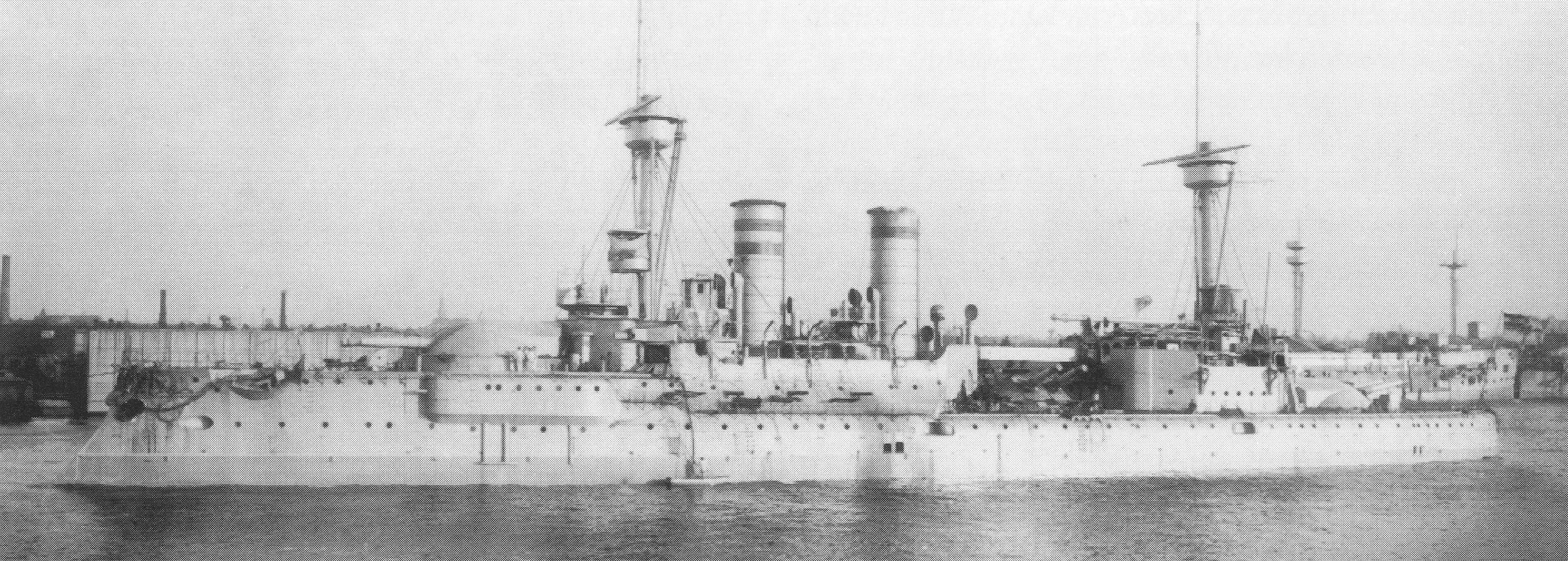 The German battleship SMS Weißenburg in 1898.